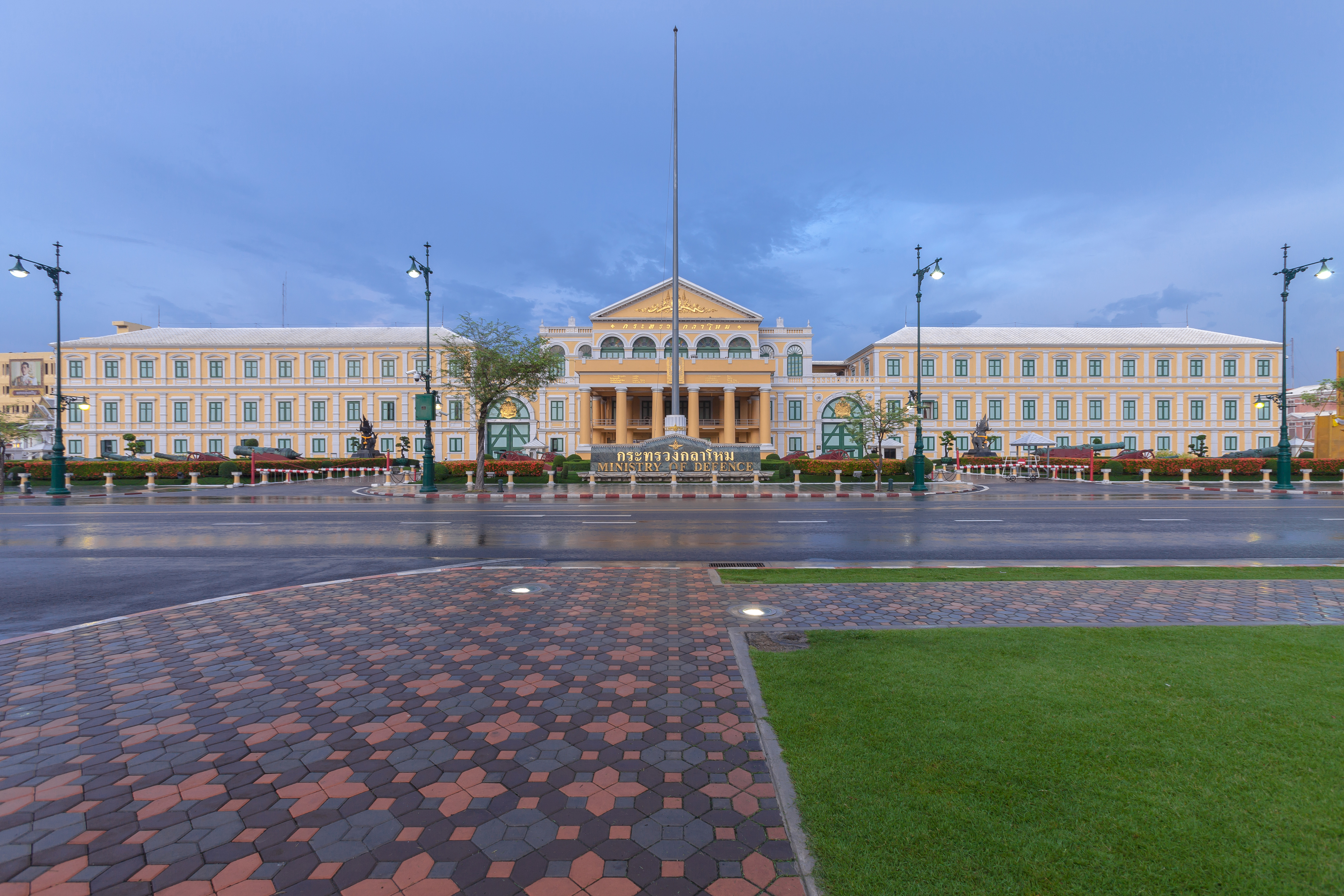 Ministry of Defense building of Thailand, Bangkok.